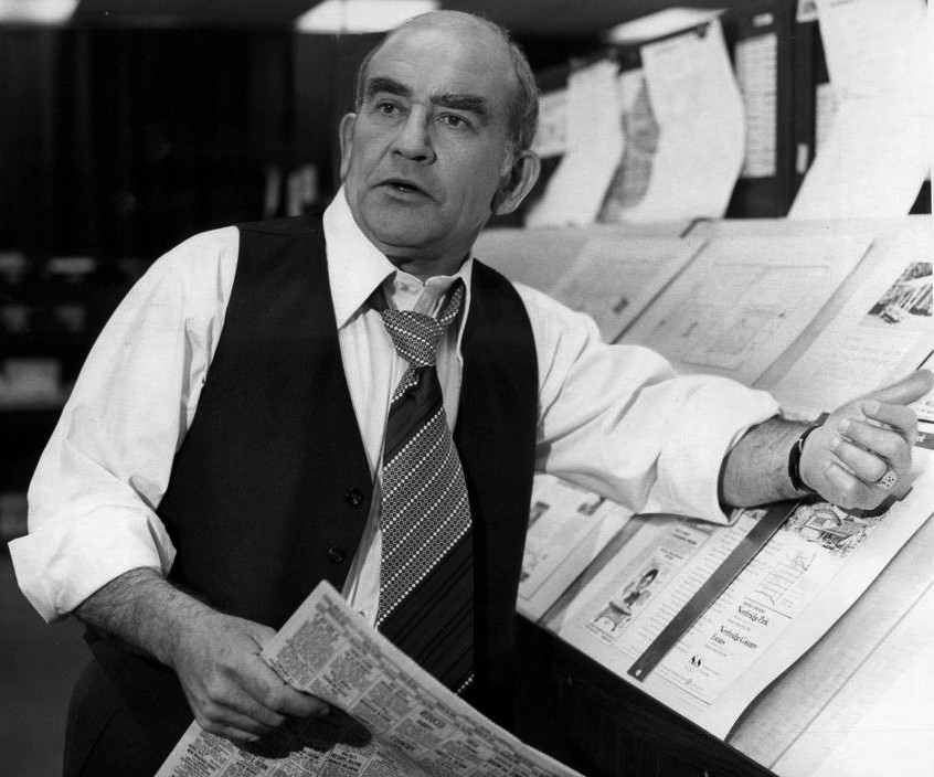 Photo of Ed Asner as Lou Grant from the television program of the same name.